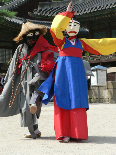 Songpa sandaenori (송파산대놀이), mask dance which has been handed down to Songpa regions, in present Seoul, South Korea.